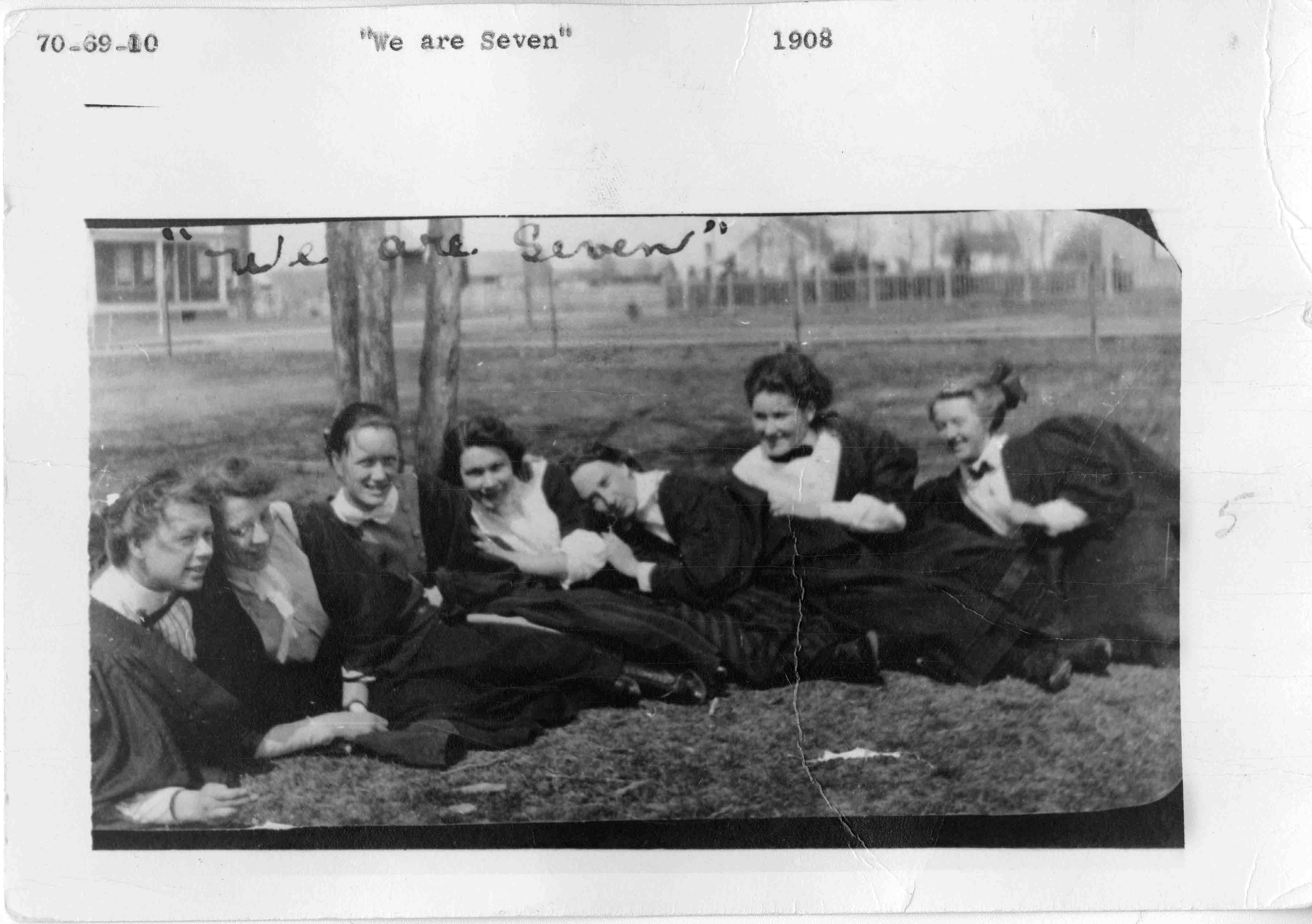 The seven original members of the Wuaneita Society's predecessor, Seven Independent Spinsters, sit together in the grass